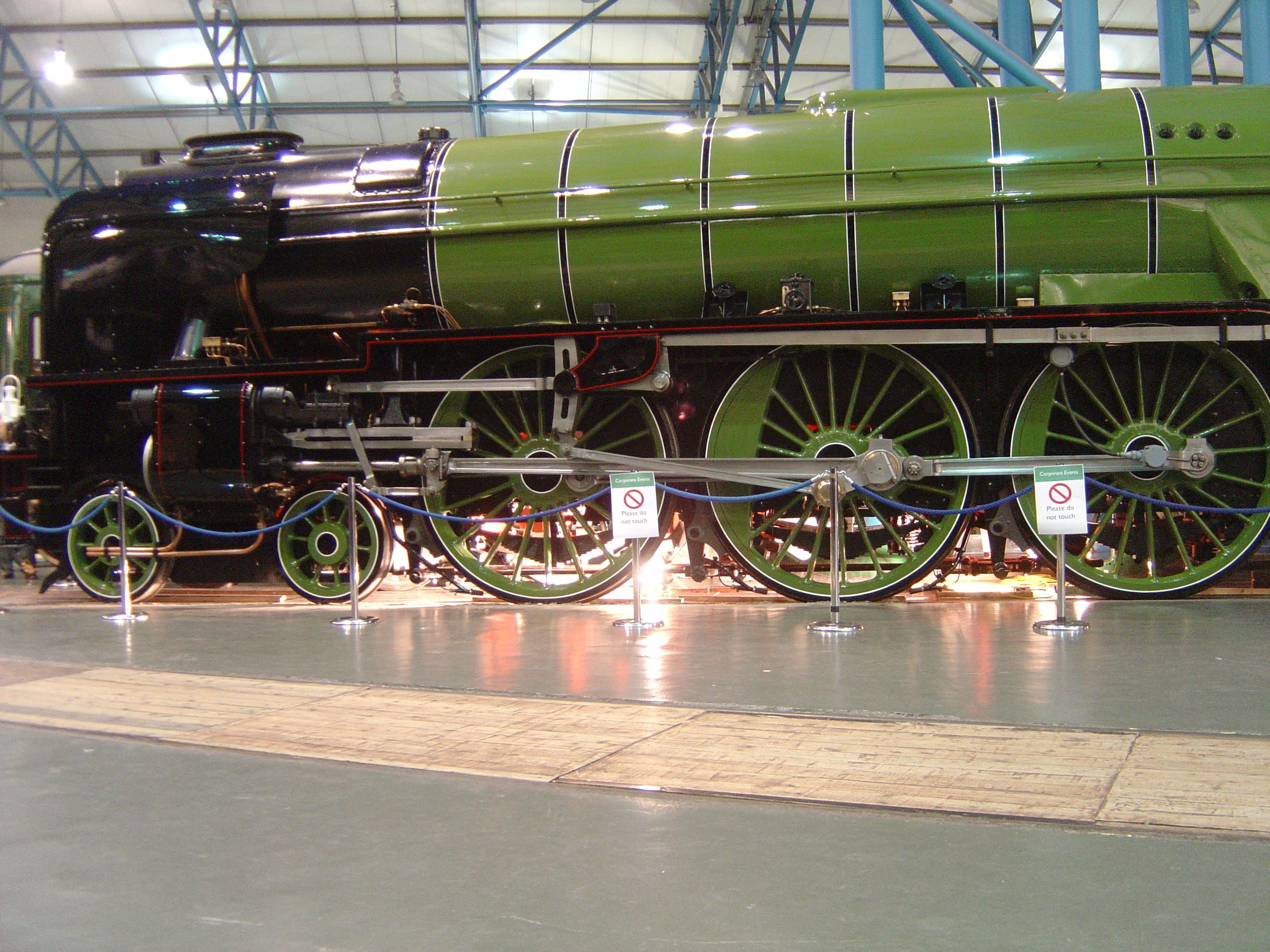 New build steam locomotive 60163 Tornado at the National Railway Museum in York, England, on the day of her public unveiling in her first proper livery, LNER Apple Green with British Railways markings on the tender